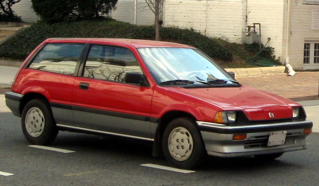 1984-1985 Honda Civic photographed in Washington, D.C., USA. Good Design Award 1984.